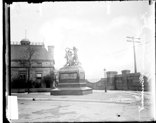 Image of the Fort Dearborn Massacre sculpture, showing the entire monument. The monument was located on the Pullman residence property at East 18th Street and South Calumet Avenue in the Near South Side community area of Chicago. The surface of the sculpture was showing erosion, possibly by smoke from the Illinois Central Railroad. The sculpture was created by Carl Rohl-Smith.